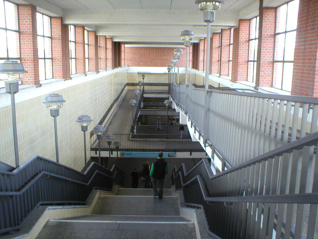 stairs and ramps in the Berlin U-Bahn station Elsterwerdaer Platz (U5)